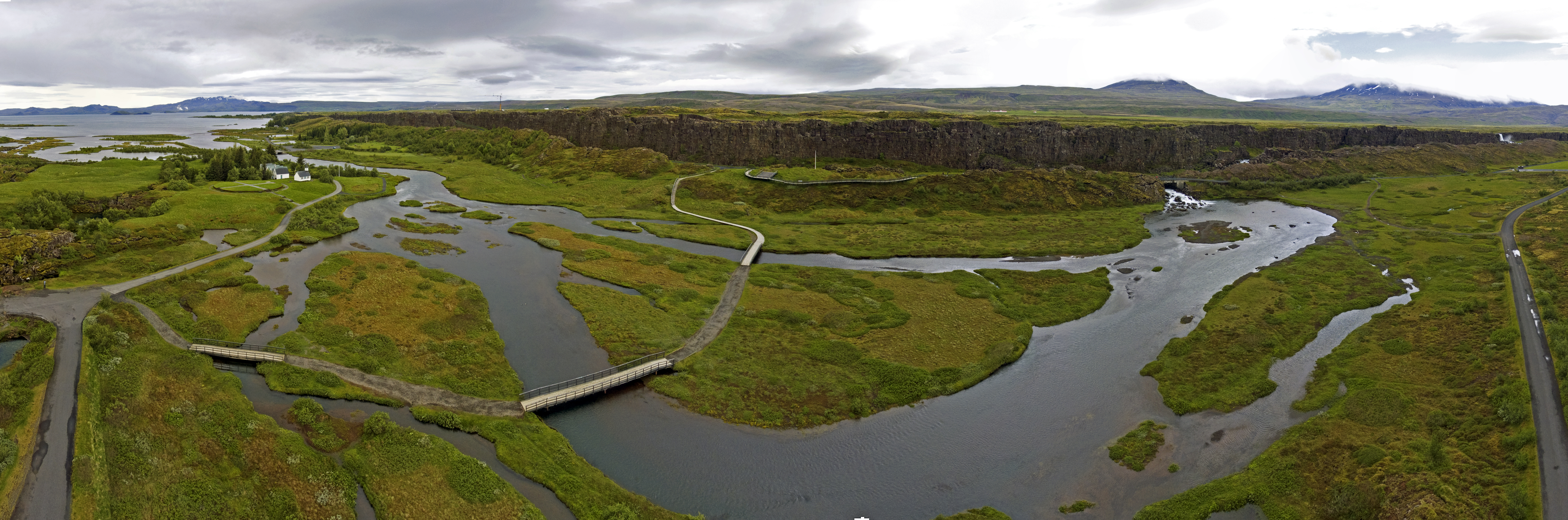 Þingvellir aerial panorama